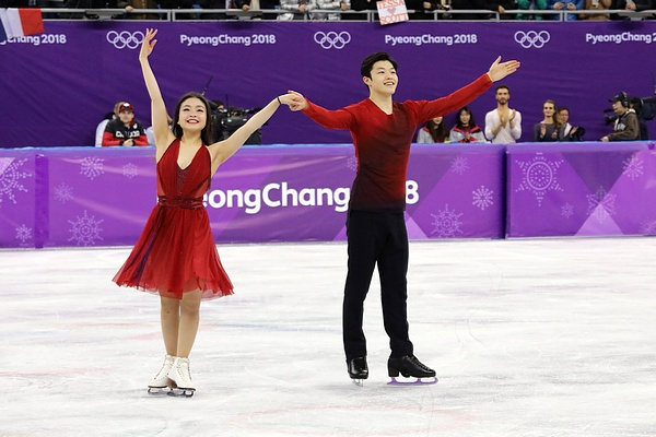 Maia Shibutani and Alex Shibutani at the Olympic Games 2018